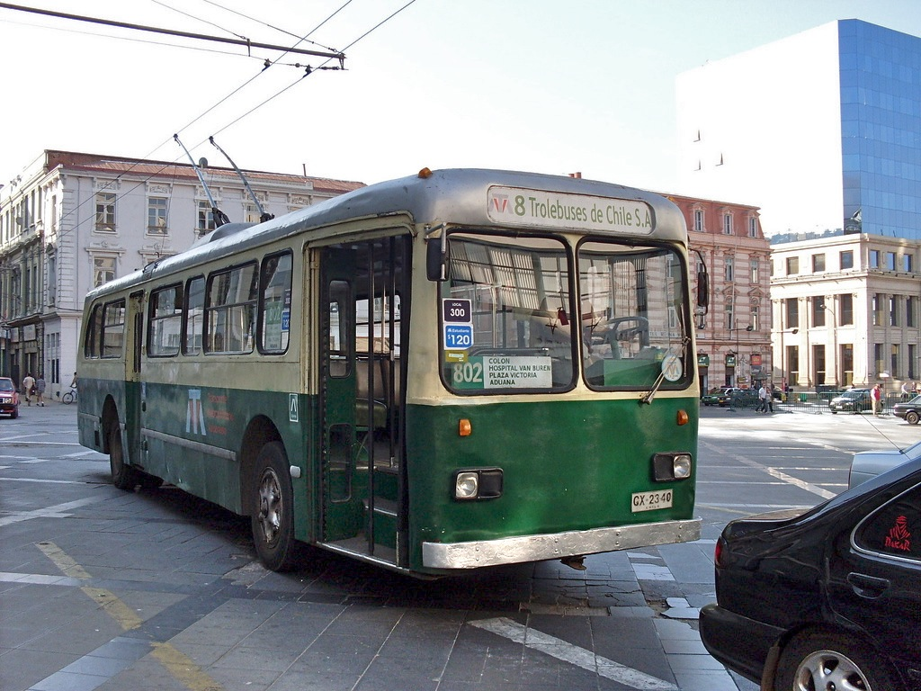 Valparaíso trolleybus 859 (license plate CX 2340) is a 1948 Pullman-Standard trolleybus whose body was rebuilt in the late 1980s with new front and side windows and a more square shape to the upper part of its rear end. It is pictured southbound at Plaza Sotomayor, in service on route 802.